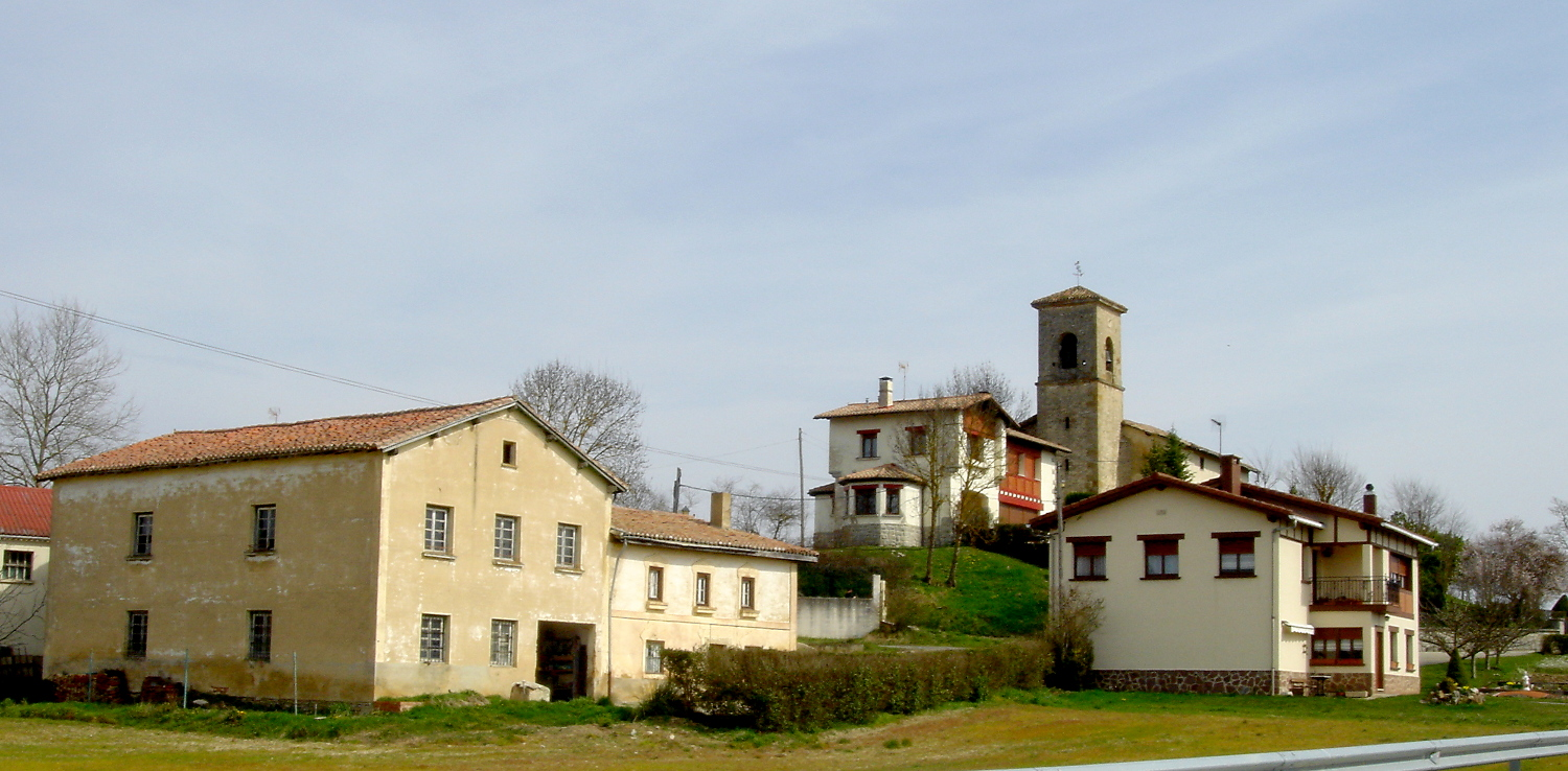 Argandoña (Gasteiz, Araba, Basque Country, Spain)